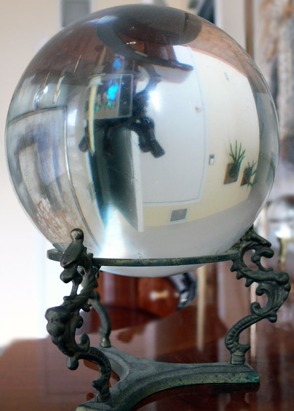 A crystal ball believed by some people to aid in the performance of clairvoyance.